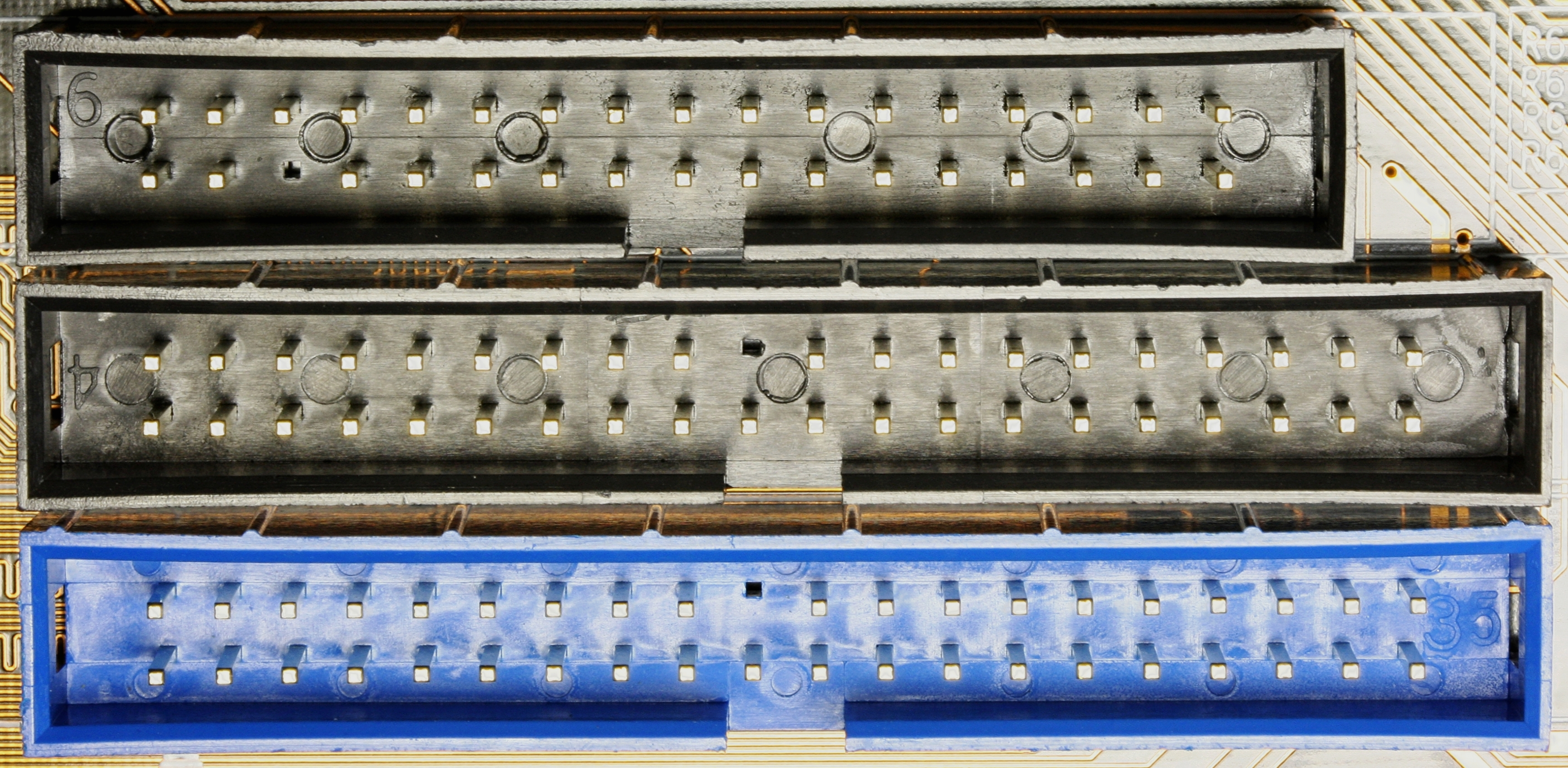 A 34 pin and two 40 pin Parallel ATA connections on a motherboard